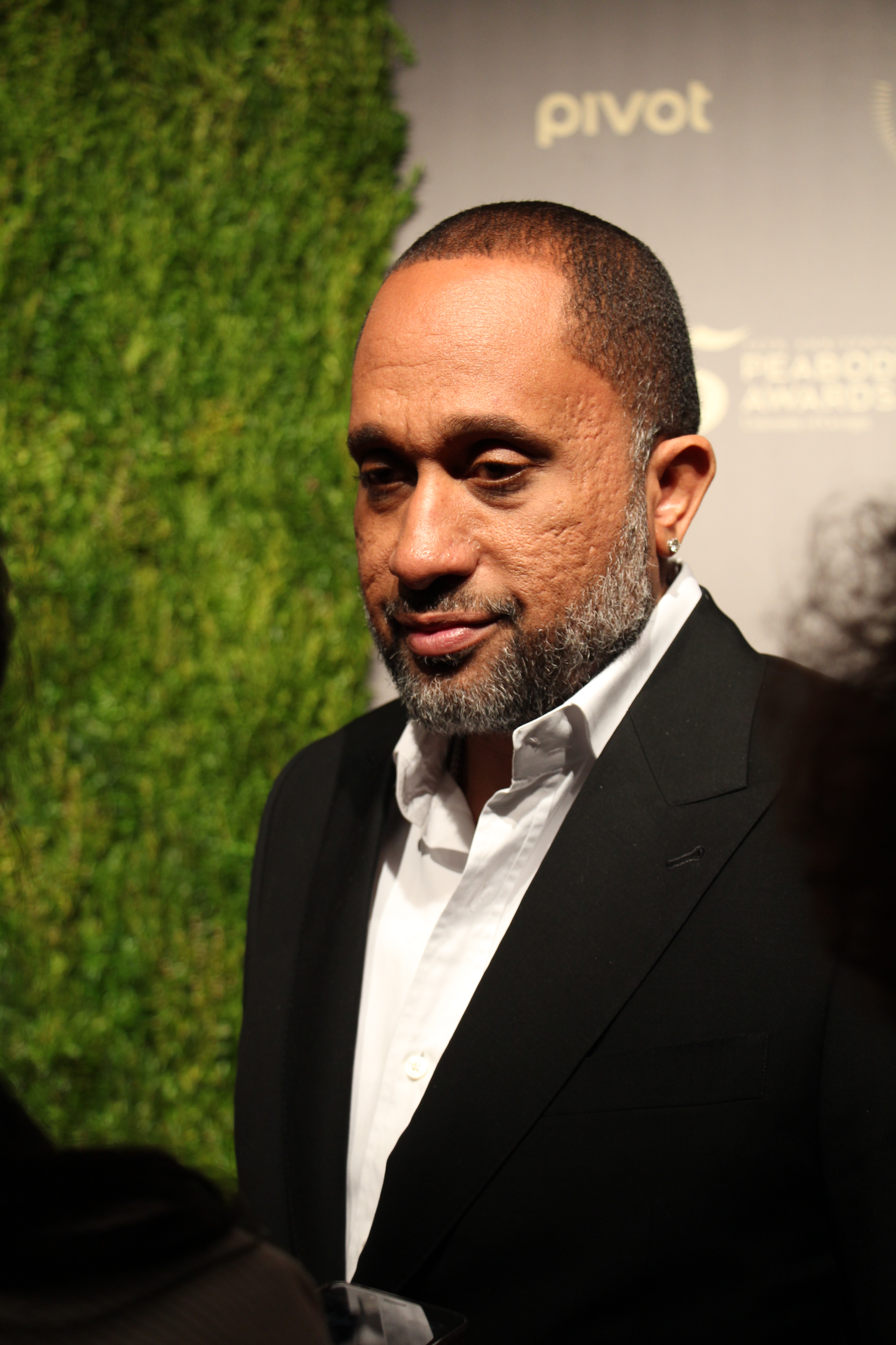 This photo includes Kenya Barris, the Series Creator and Executive Producer of "Blackish." (Photo/Sarah E. Freeman/Grady College, in New York City, Georgia, on Saturday, May 21, 2016)